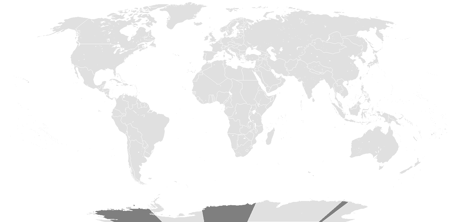 Map of the world in 1920, that includes the Treaty of Sèvres.